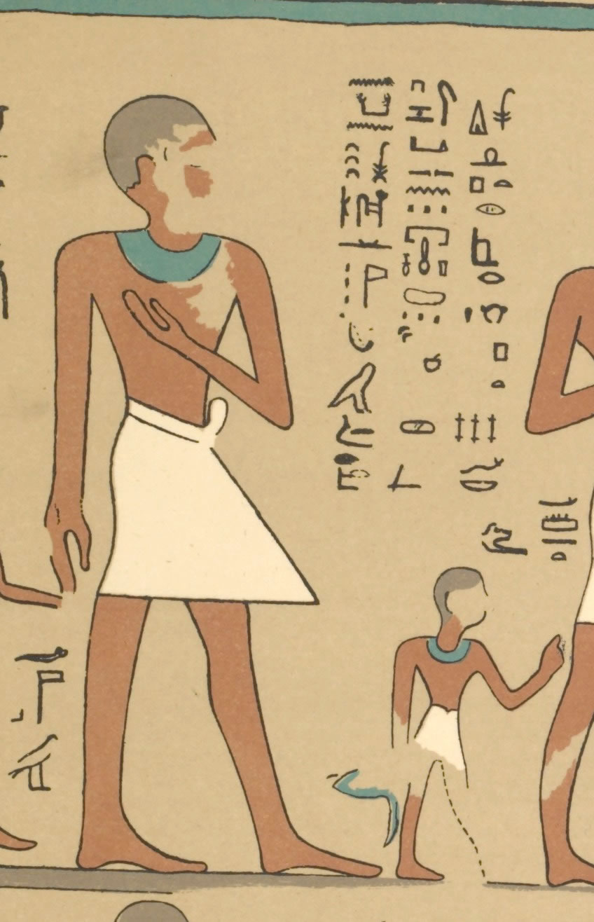 the artist Sedjemnetjeru as shown in the tomb of Sobeknakht (II) at Elkab, about 1600 BC